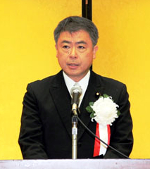 Mitsuru Sakurai, Senior Vice-Minister of Health, Labour and Welfare, attended an investiture ceremony at the Central Government Building No.5 in Chiyoda Ward, Tōkyō Metropolis on November 13, 2012. (For terms of use, see 利用規約｜厚生労働省.)